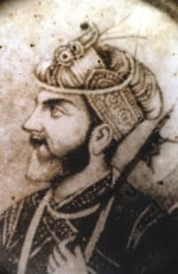 Isa Khan, leader of the Baro Bhuiyans of Bengal